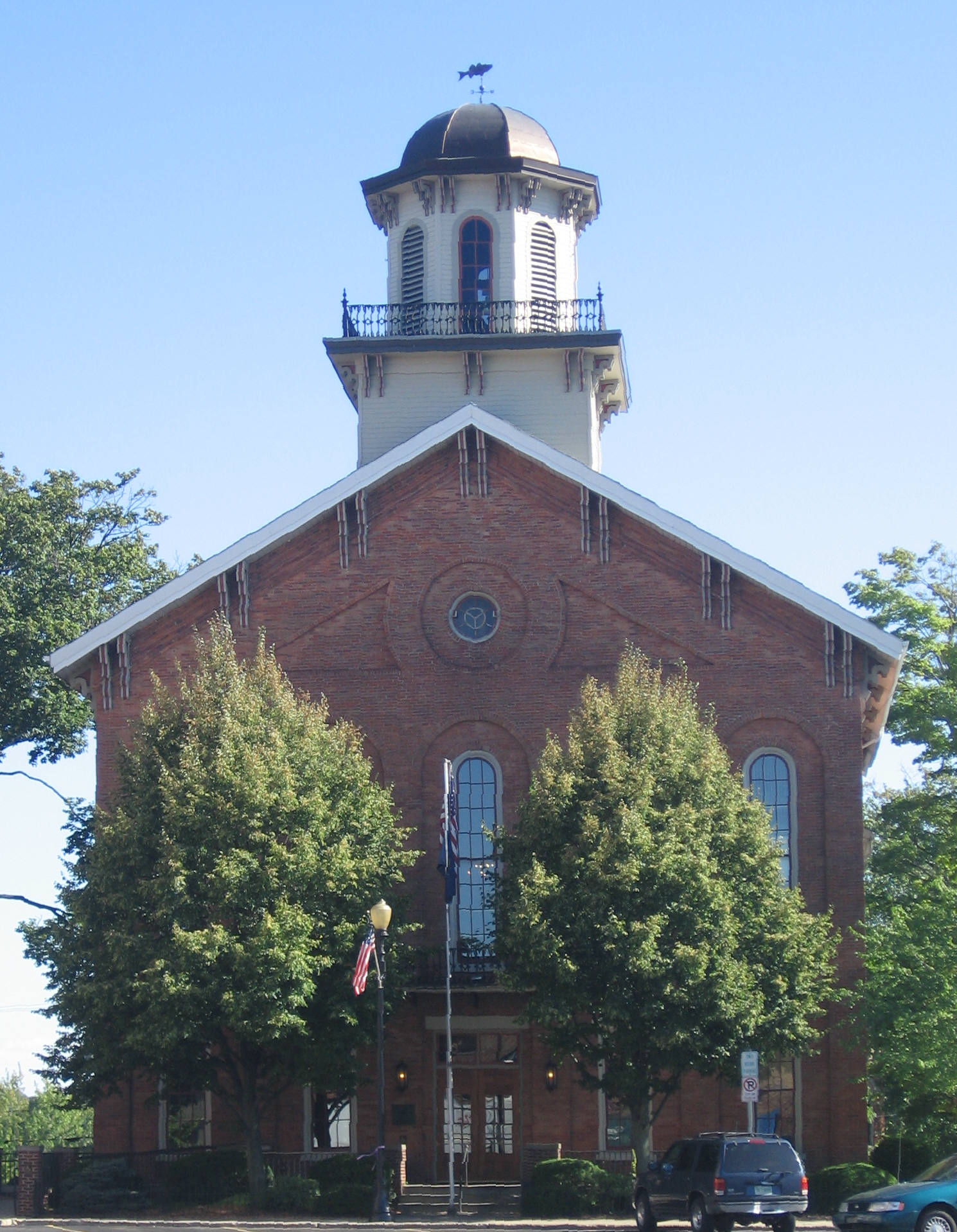 Photo of Steuben County Courthouse, Angola, Indiana. This courthouse is on the National Register of Historic Places.